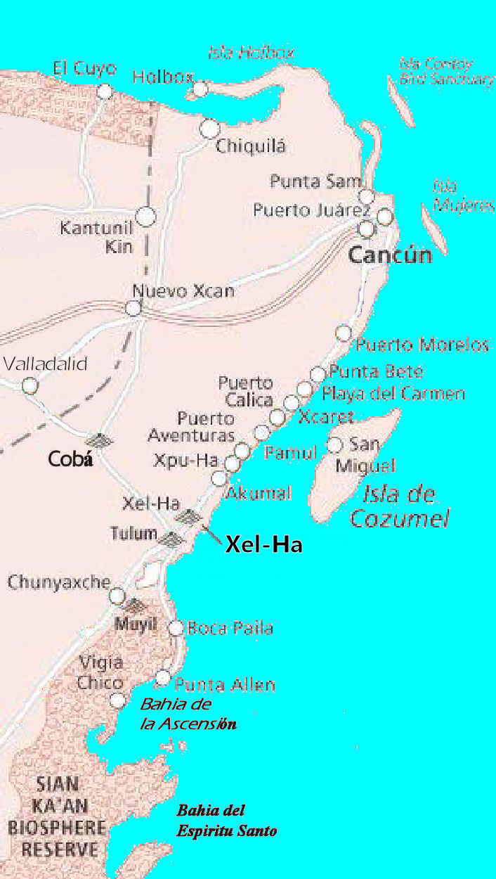 Map of northern Quintana Roo, Yucatan Peninsula, Mexico